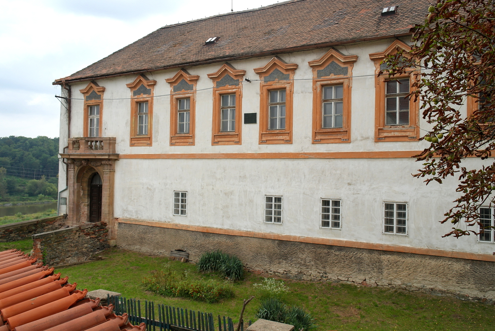 Castle Chvatěruby, Chvatěruby 1, Chvatěrubyeastern facade